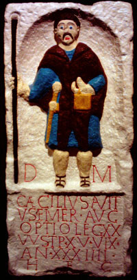 Reproduction of a memorial stone to Caecilius Avitus, an optio of Legio XX "Valeria Victrix". The inscription reads: "Caecilius Avitus, from Emerita Augusta, optio of the XX Legion "Valeria Victrix", served for 15 years, died at the age of 34, his heirs built this"